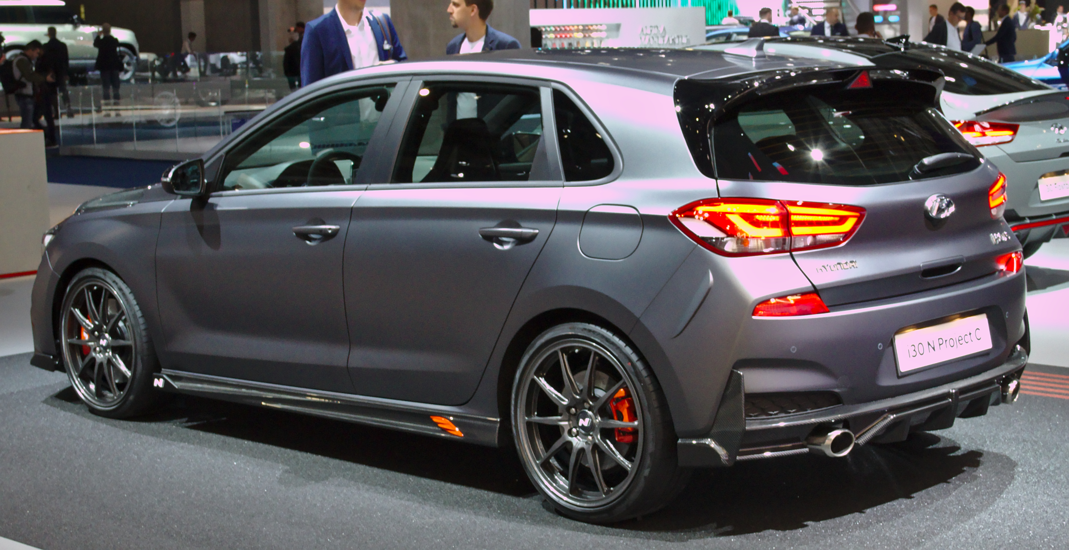 Hyundai_i30_N_Project_C at IAA 2019